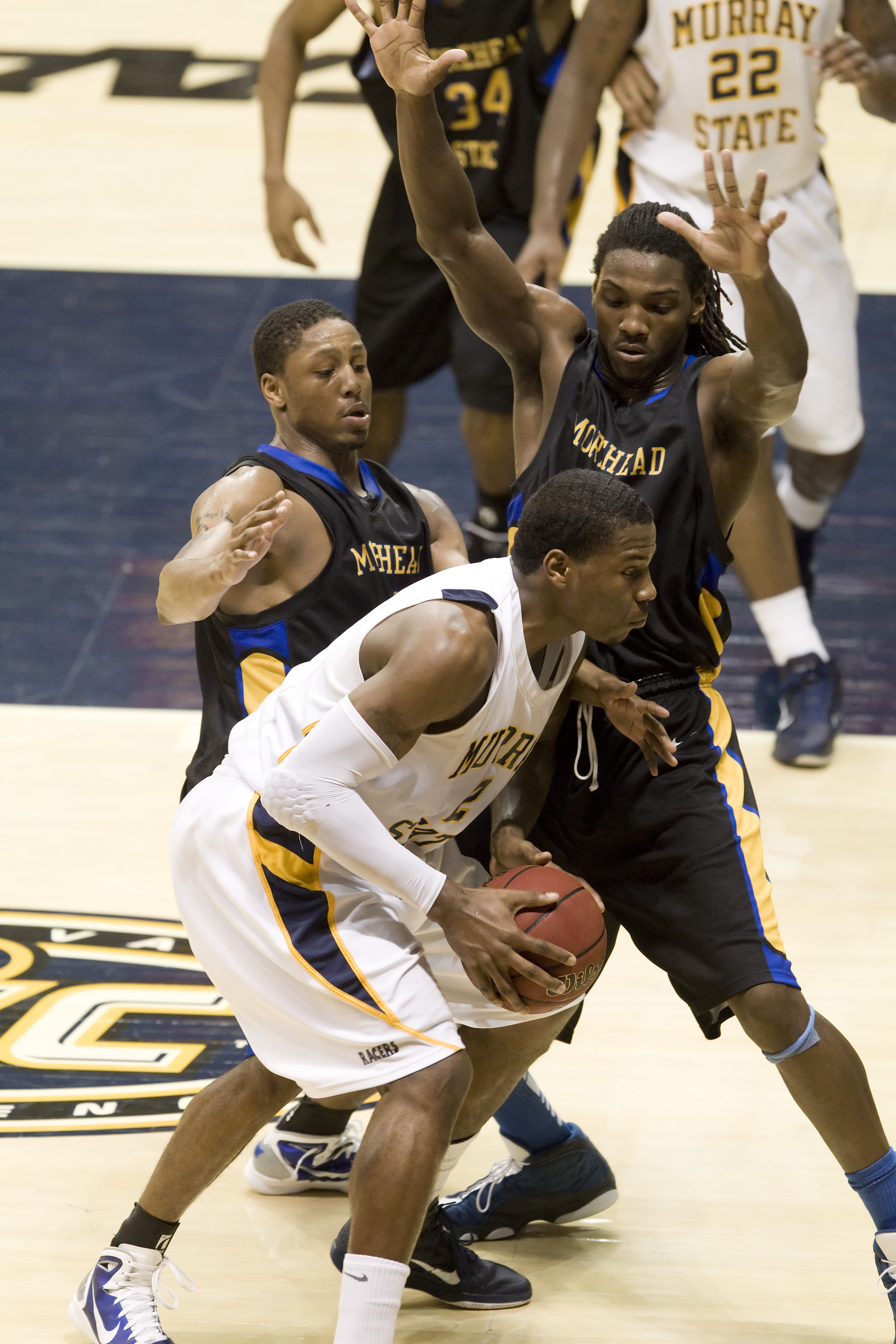 Edward Daniel (MSU) being defended by Demonte Harper and Kenneth Faried (Morehead State)